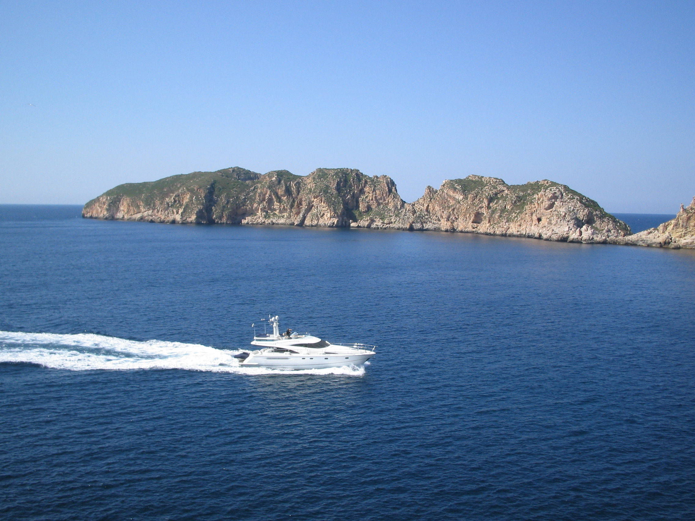 Yacht cruising malgrats islands in Mallorca